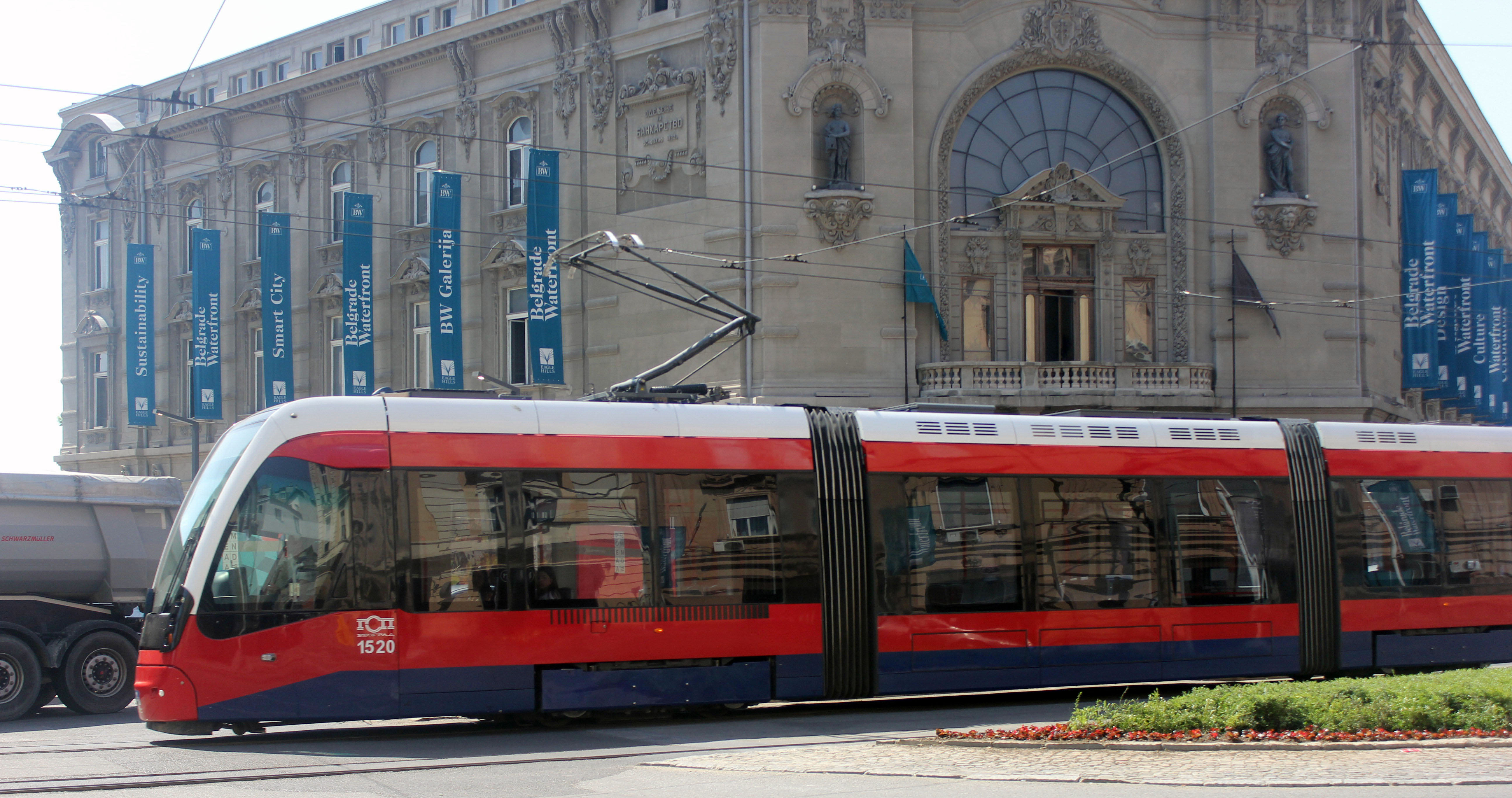 CAF tram no. 1520 of Belgrade public transport (GSP).